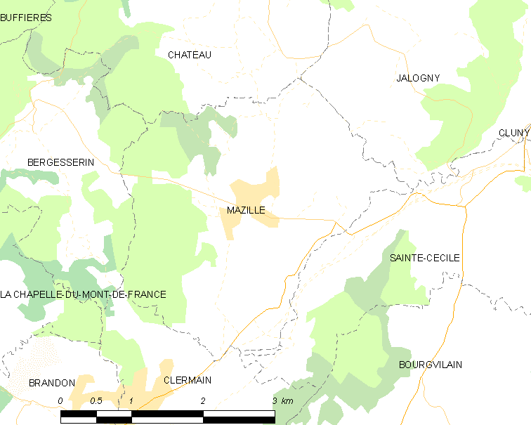 Map of French municipality